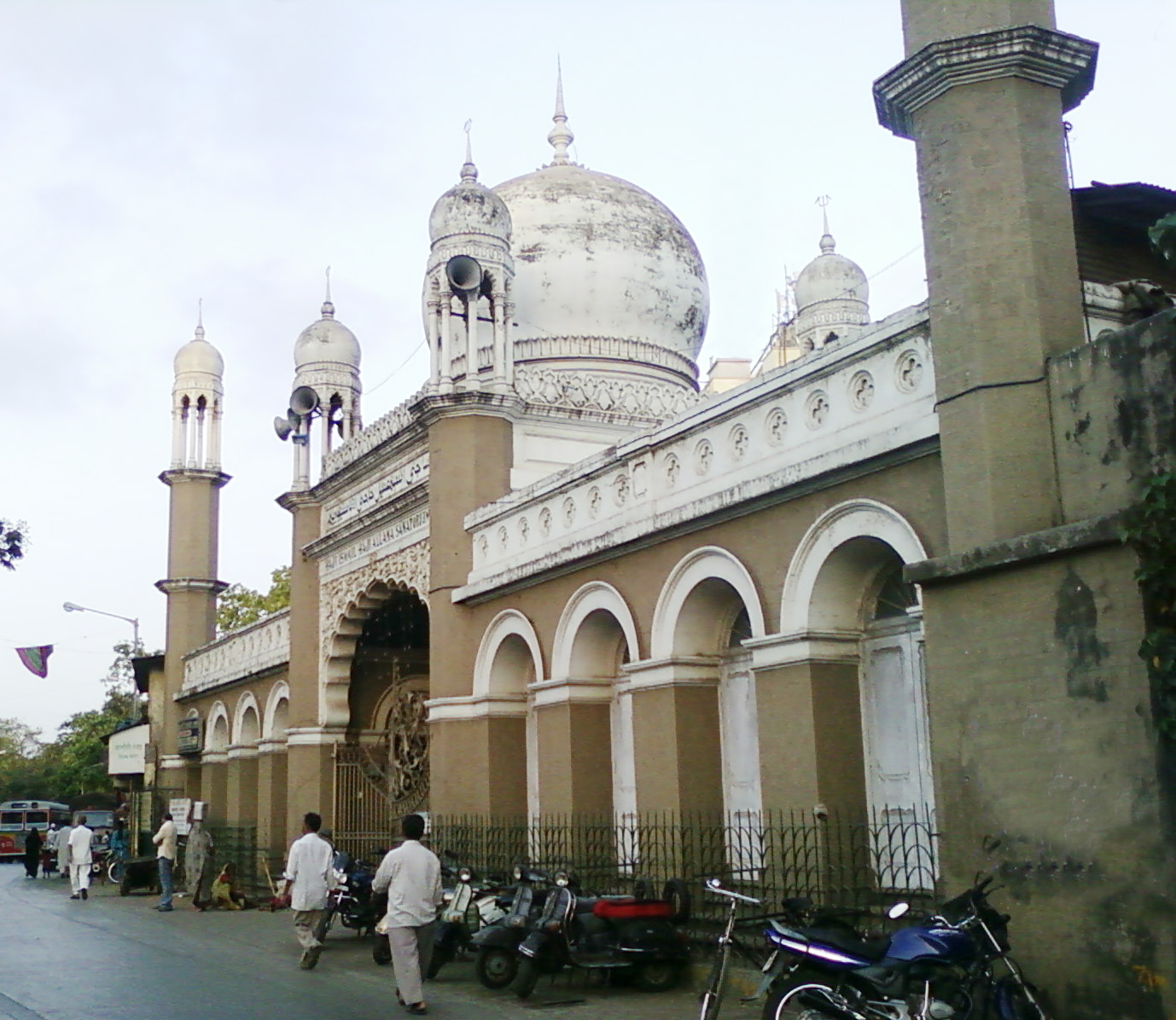 Haji Ismail Haji Allana Sanatorium, Wadala East